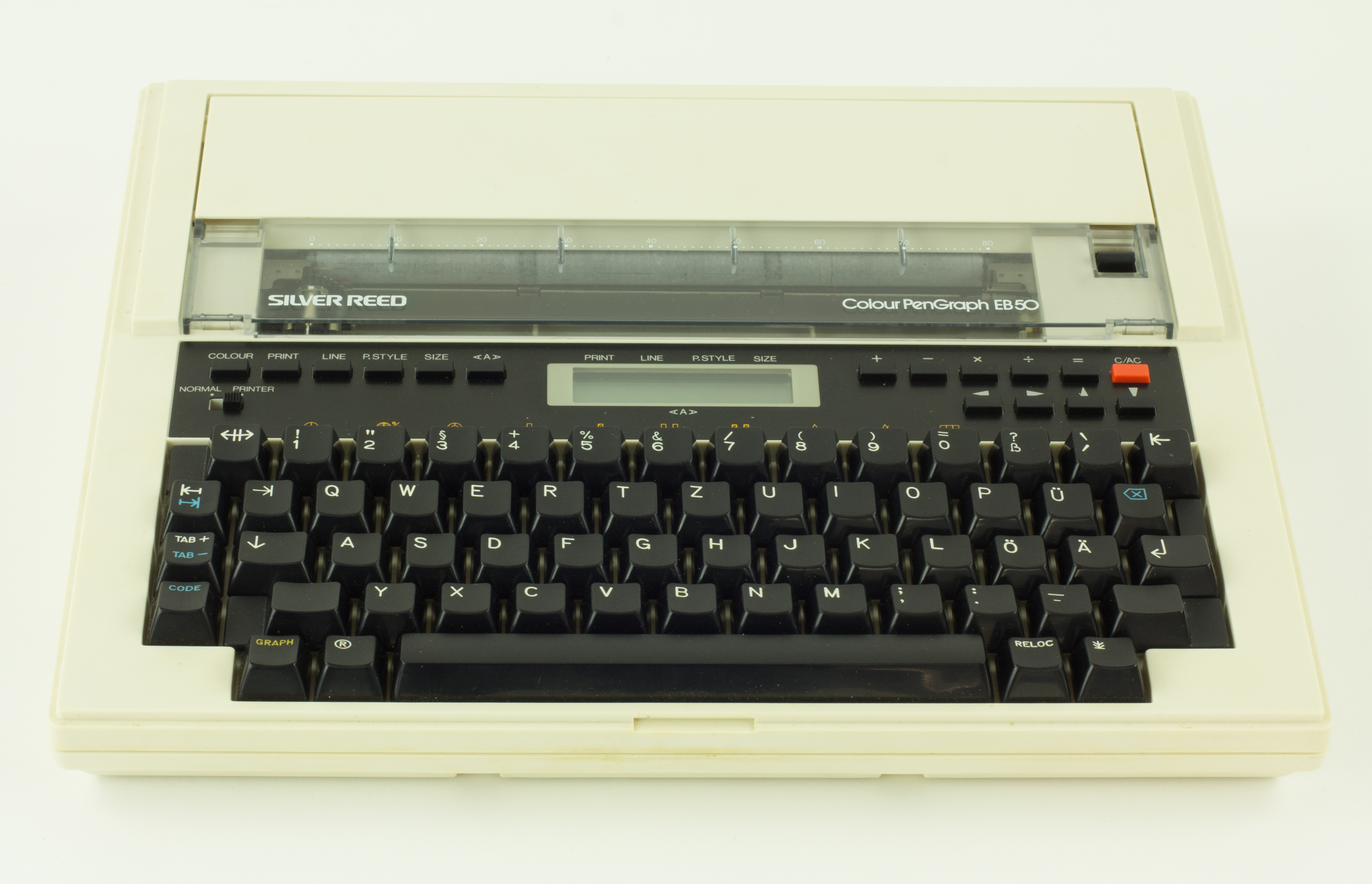 Silver Reed Colour PenGraph EB50 Plotter: cover taken off